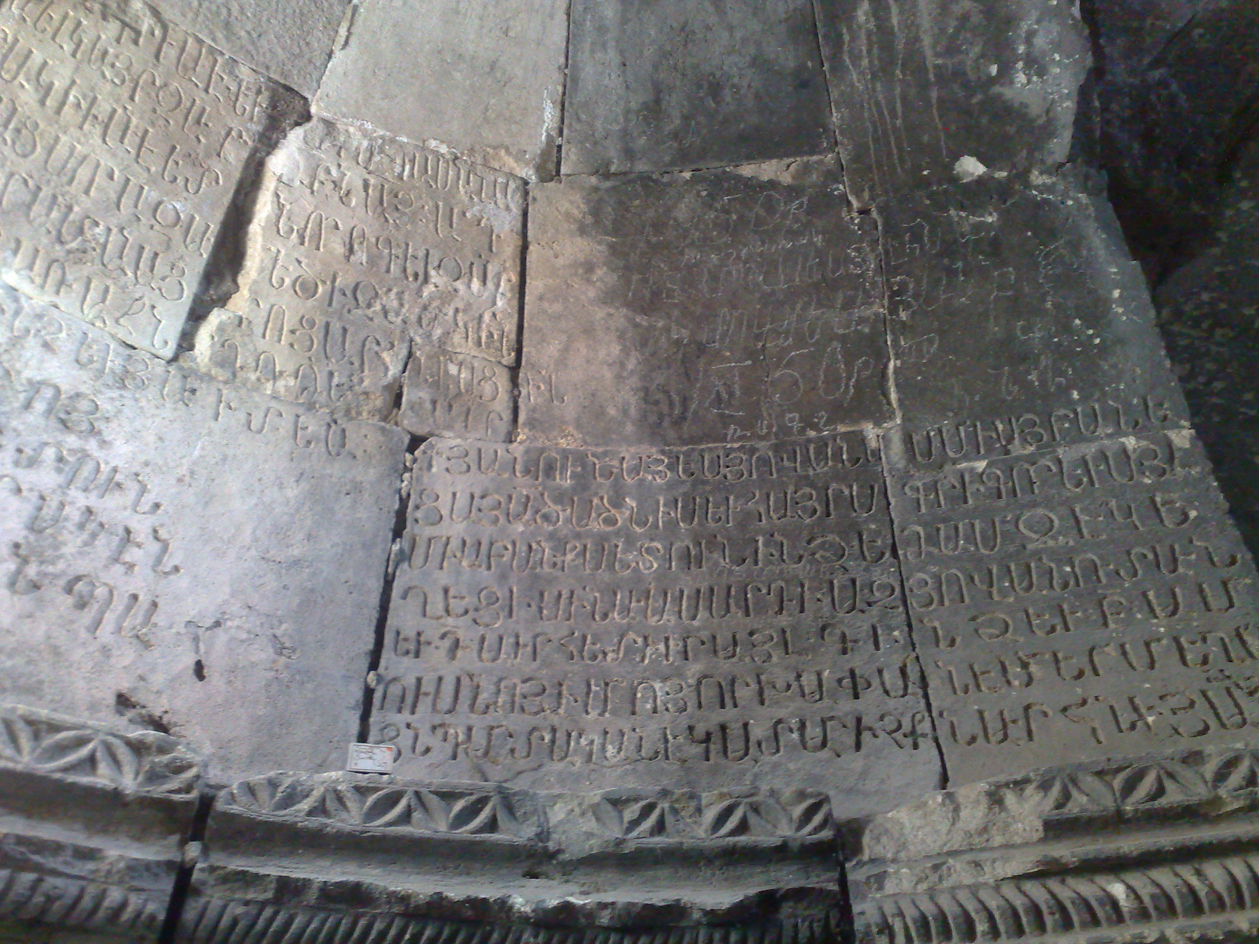 One of five photos of a wall, on which inscriptions on old armenian language. At the left on the right, i.e. №1,2,3,4,5